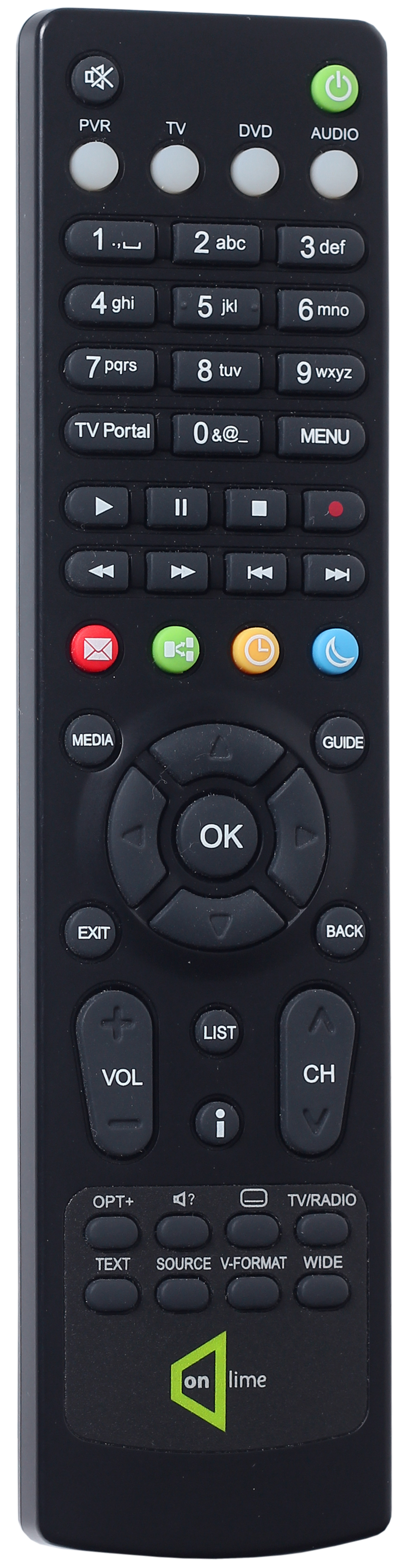 Television remote control